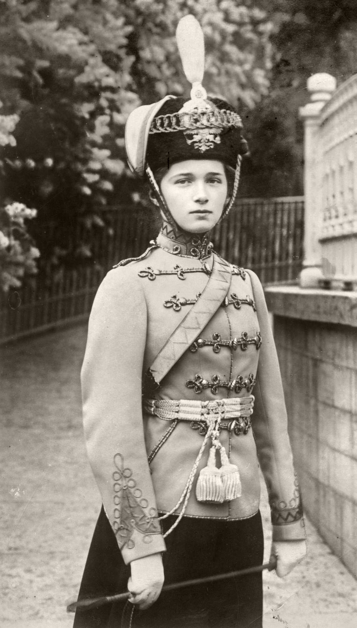 Olga Nikolaevna in the uniform of her 3rd Elizavetgradsky hussars regiment.